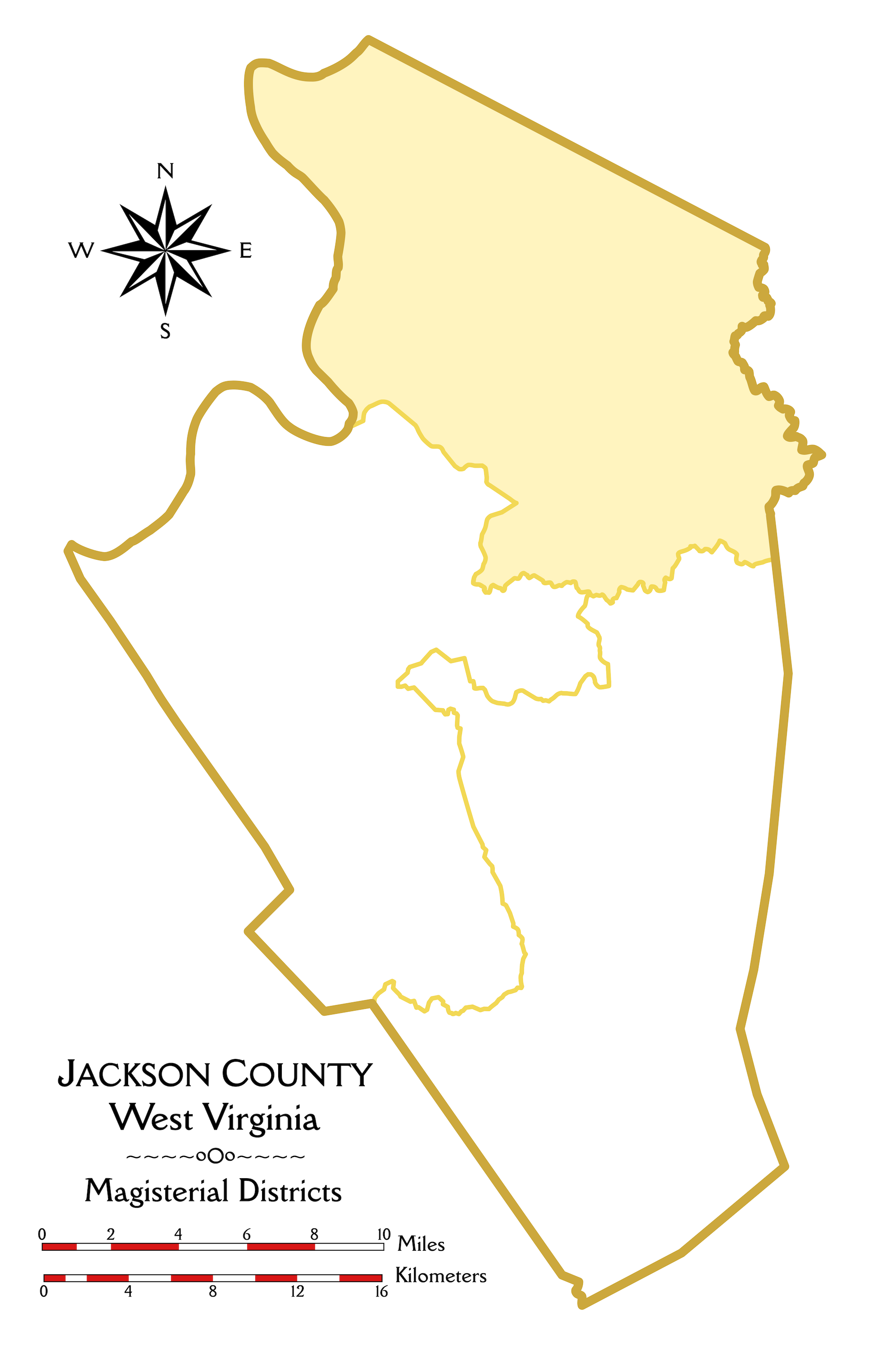 Outline map of Jackson County, West Virginia, showing the boundaries of the magisterial districts. The Northern Magisterial District is shaded.